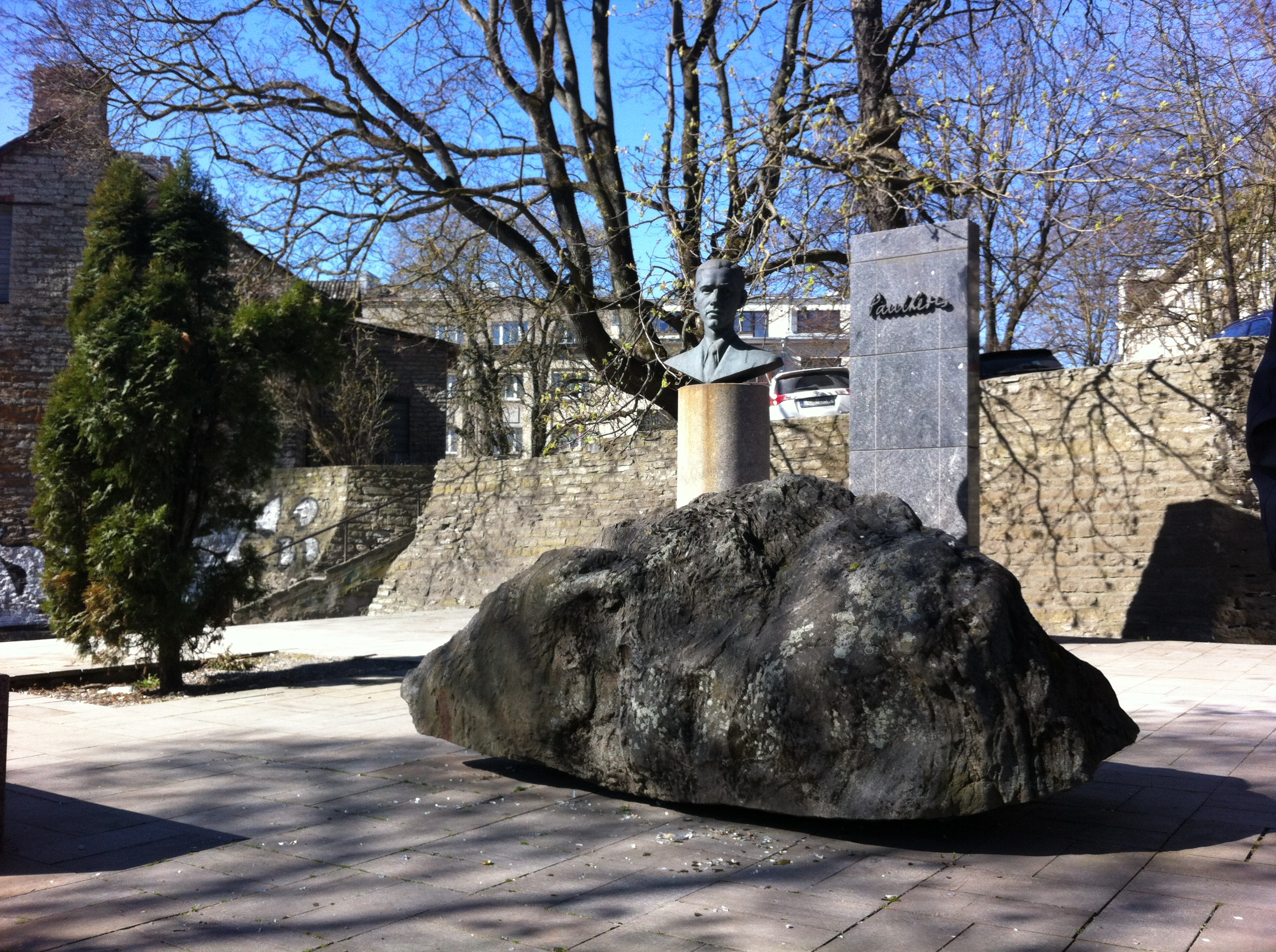 Tõnismäe, Tallinn, Estonia